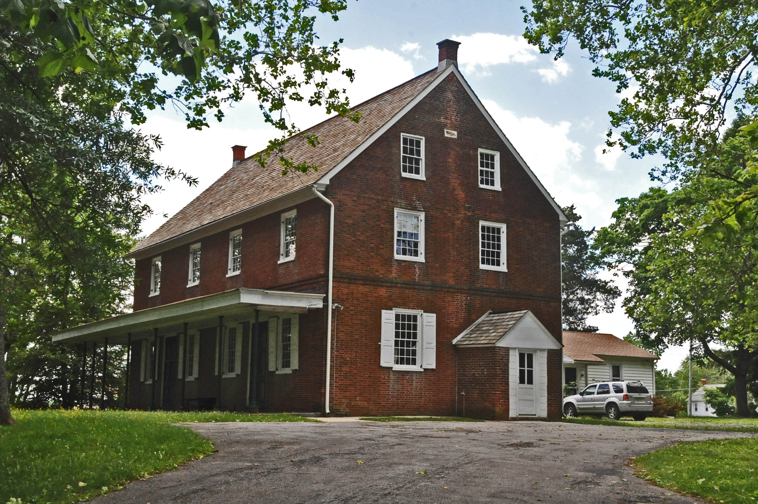 FRIENDS MEETING HOUSE; THIS BUILDING WAS ERECTED IN 1806 ON LAND PURCHASED FROM JACOB SPICER, THE FIRST SETTLER ON THE SOUTH SIDE OF RACCOON CREEK, MULLICA HILL.